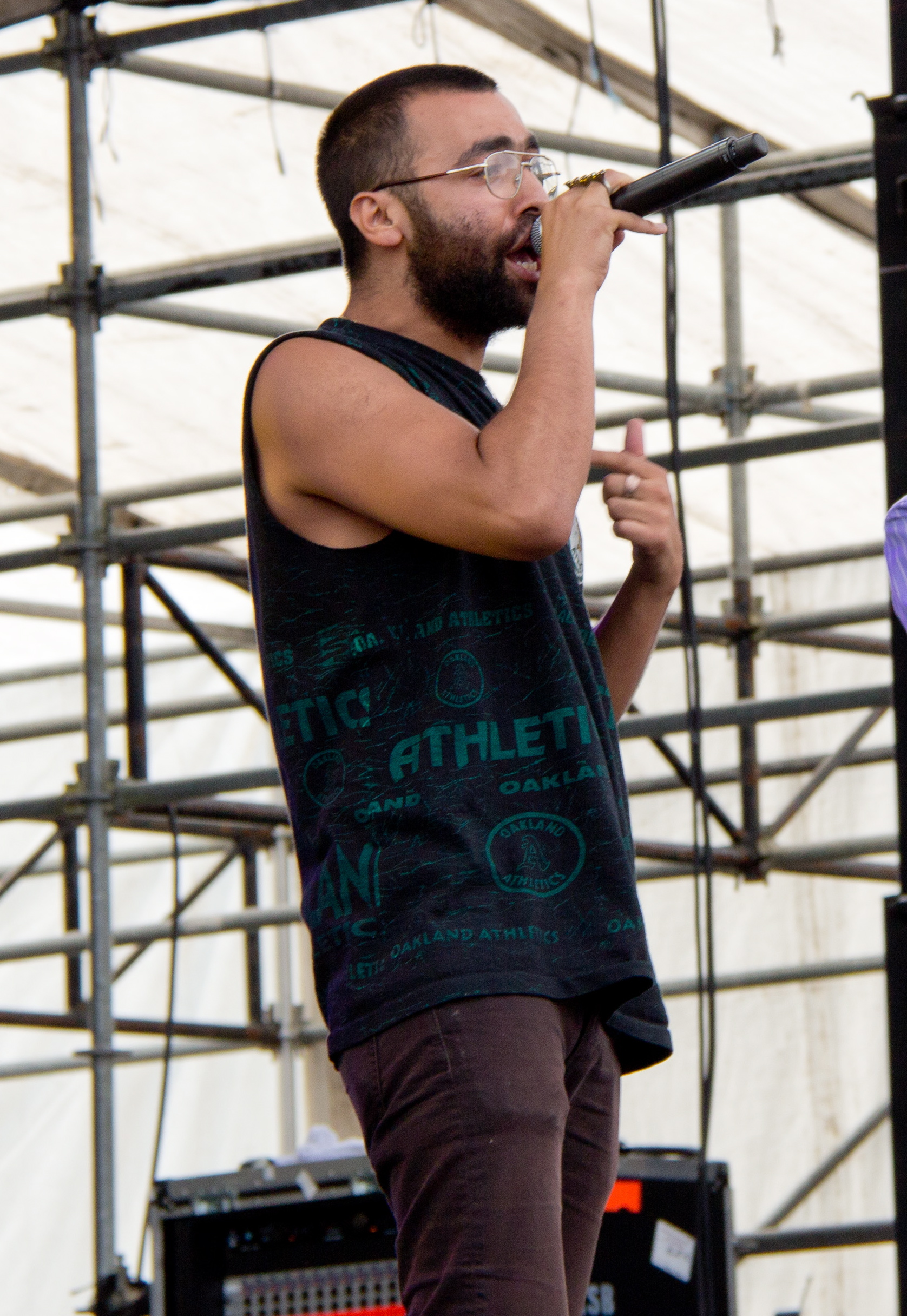 Image of Victor Vazquez, a.k.a. Kool A.D., performing live.